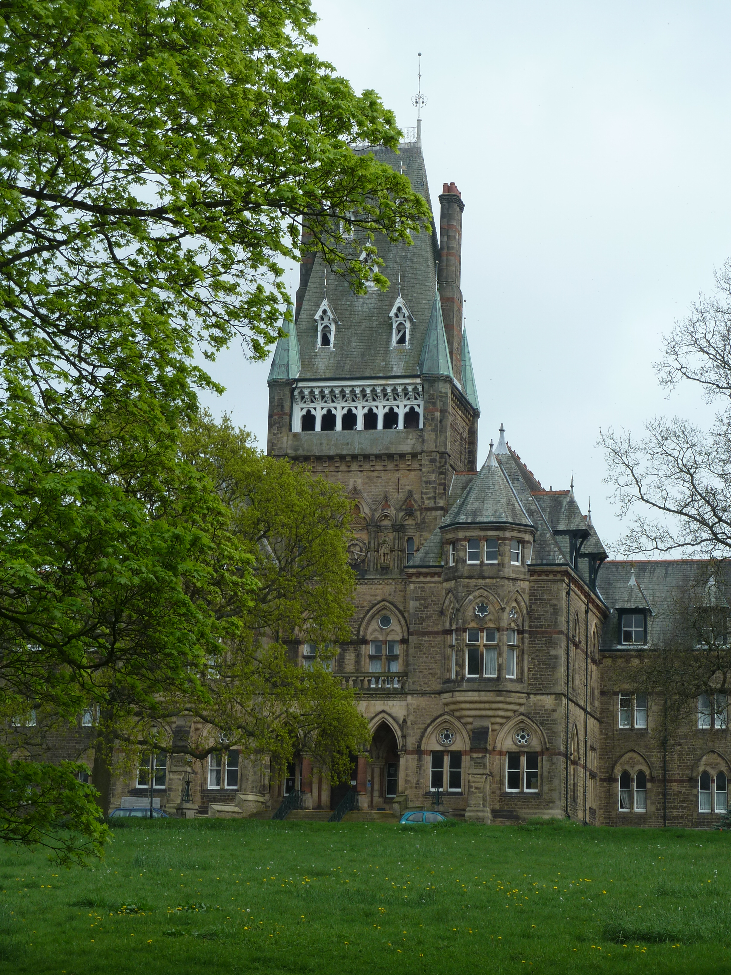 The former Royal Albert Hospital (now Jamea Al Kauthar College) seen from Ashton Road